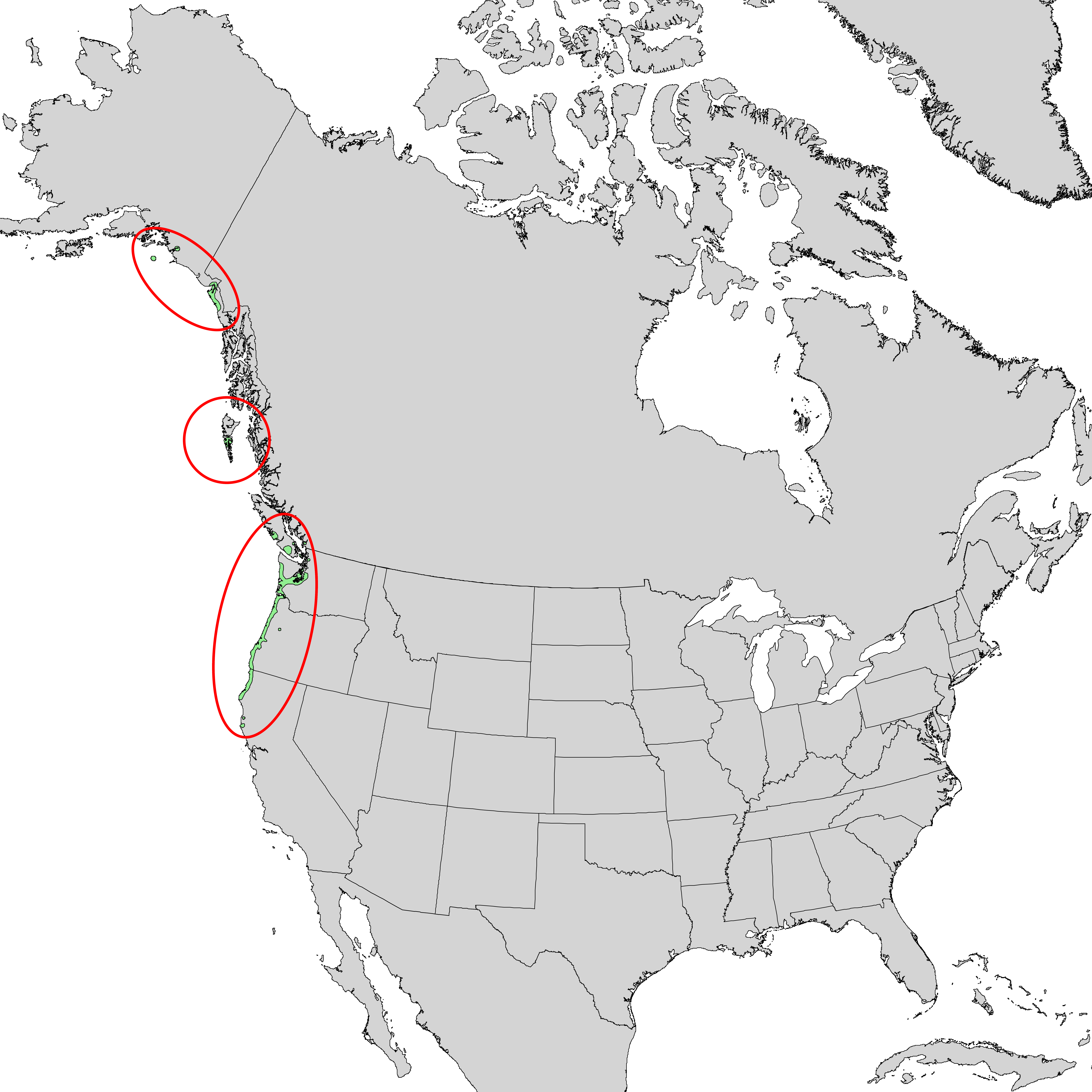 Natural distribution map for Salix hookeriana (Hooker willow)